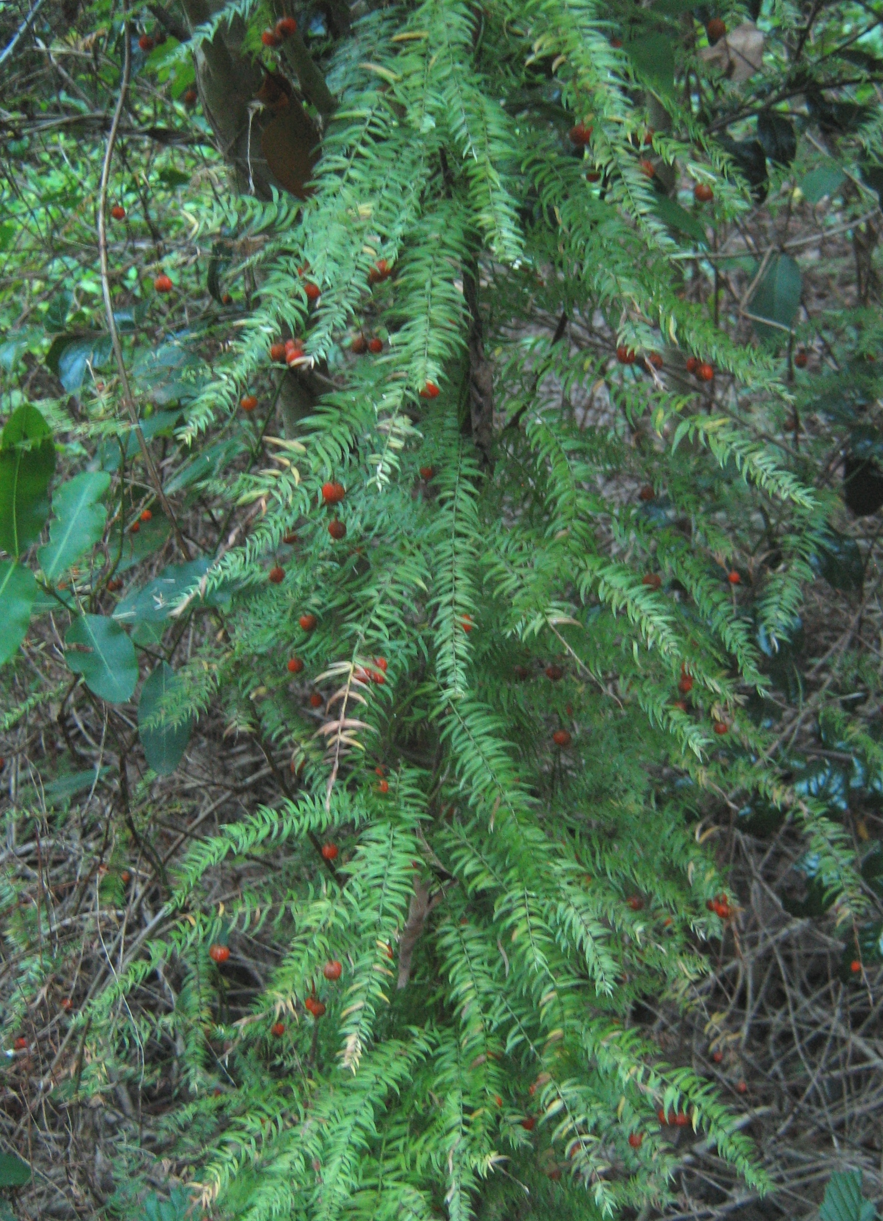 Asparagus scandens creeper.